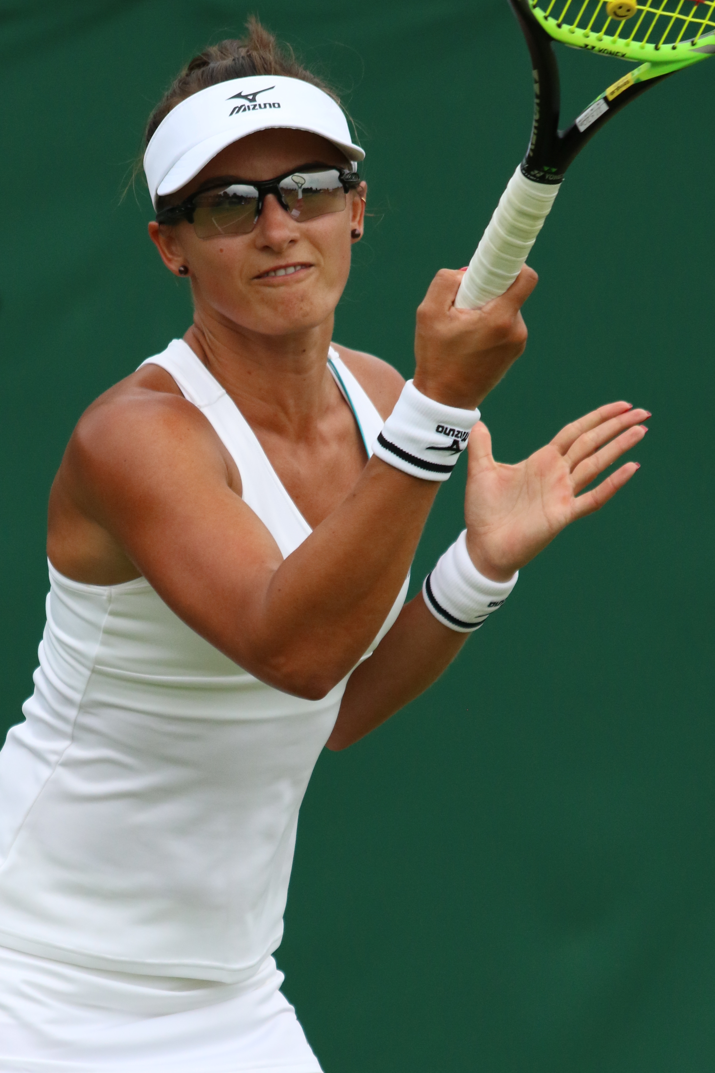 2019 Wimbledon Qualifying Tournament.